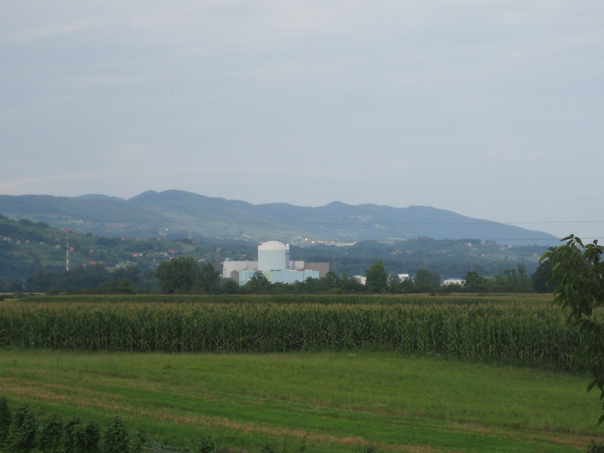 Nuclear power plant Krško, Slovenia